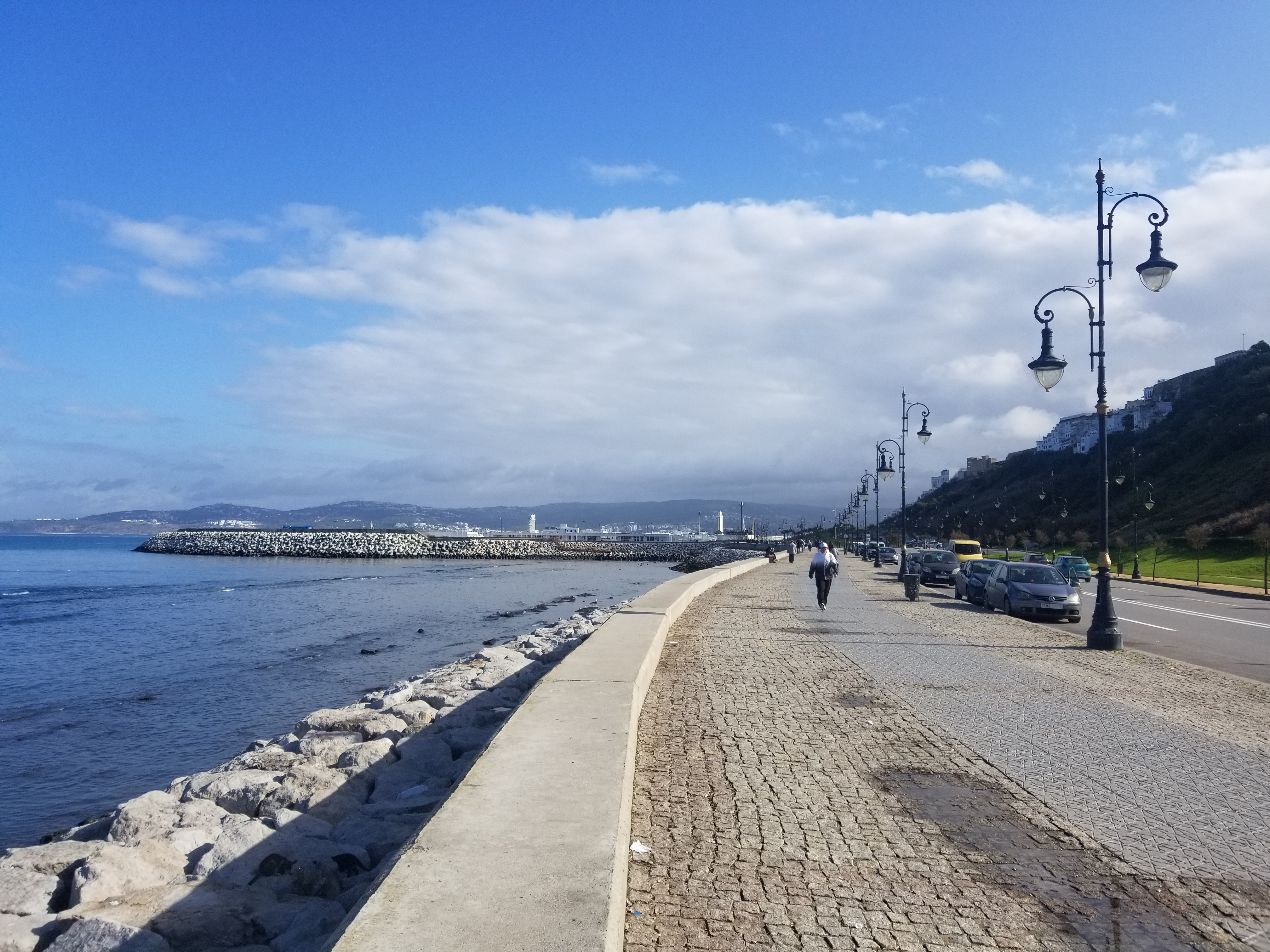 This is an image with the theme "Africa on the Move or Transport" from: Morocco